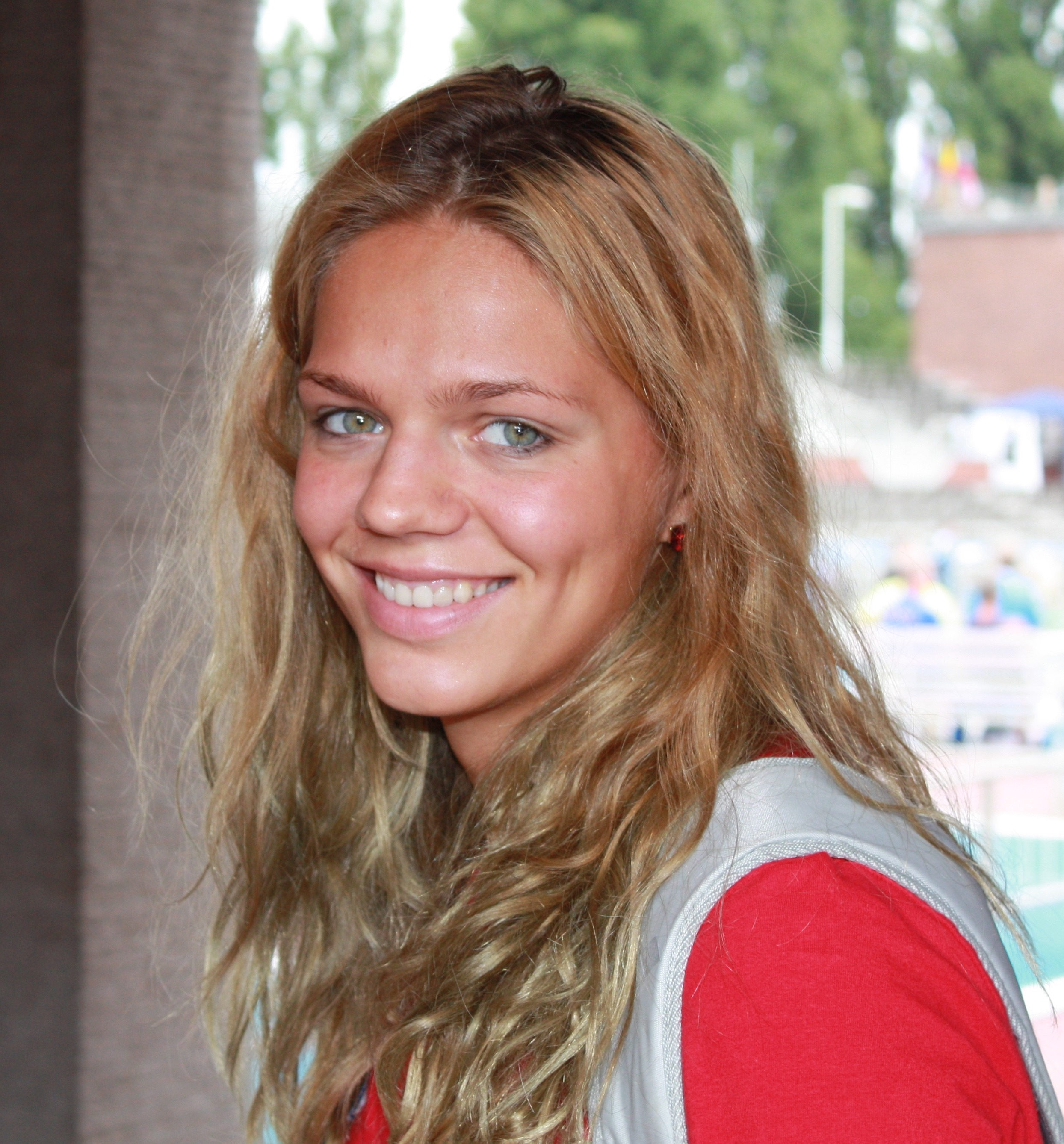 Yulia Efimova at the European Swimming Championships in Budapest-2010